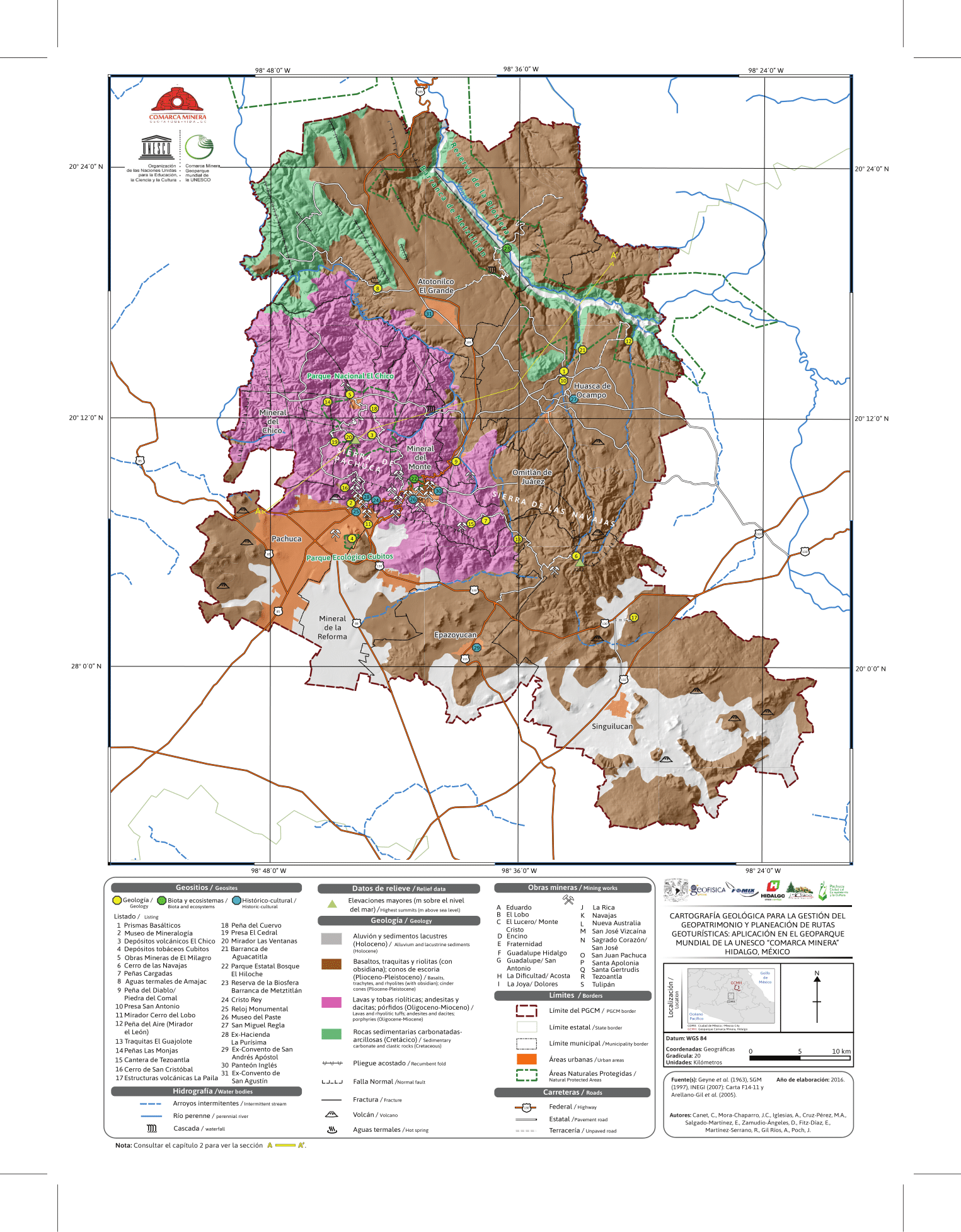 Geological mapping for geopatrimony management and geotouristic route planning